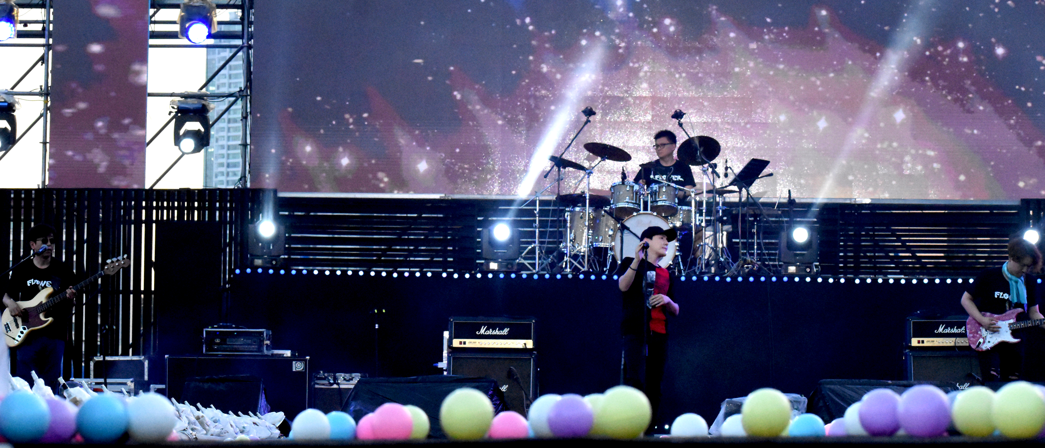 Flower at the 23rd Busan Sea Festival in Haeundae on August 3, 2018.